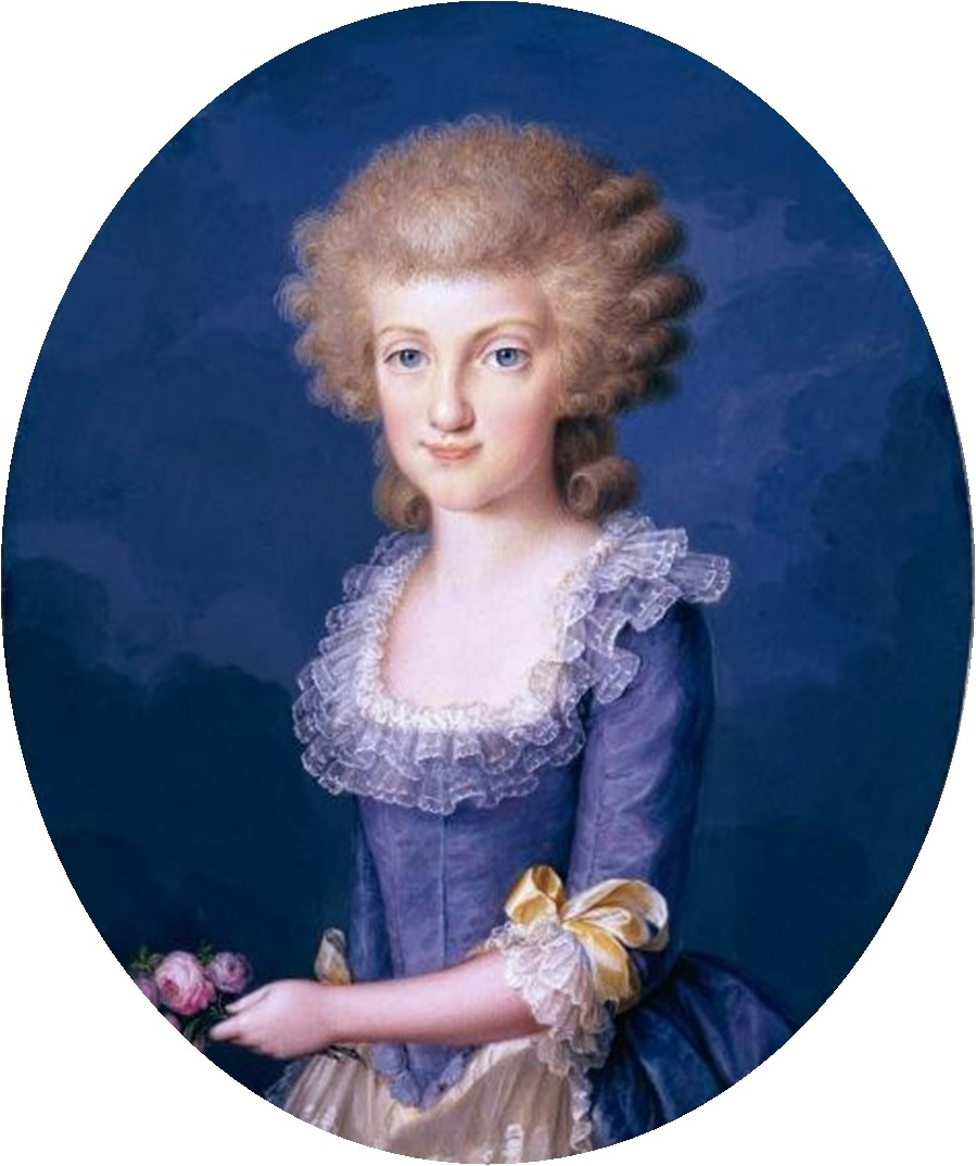 Portrait of Maria Cristina of Naples and Sicily (1779-1849)